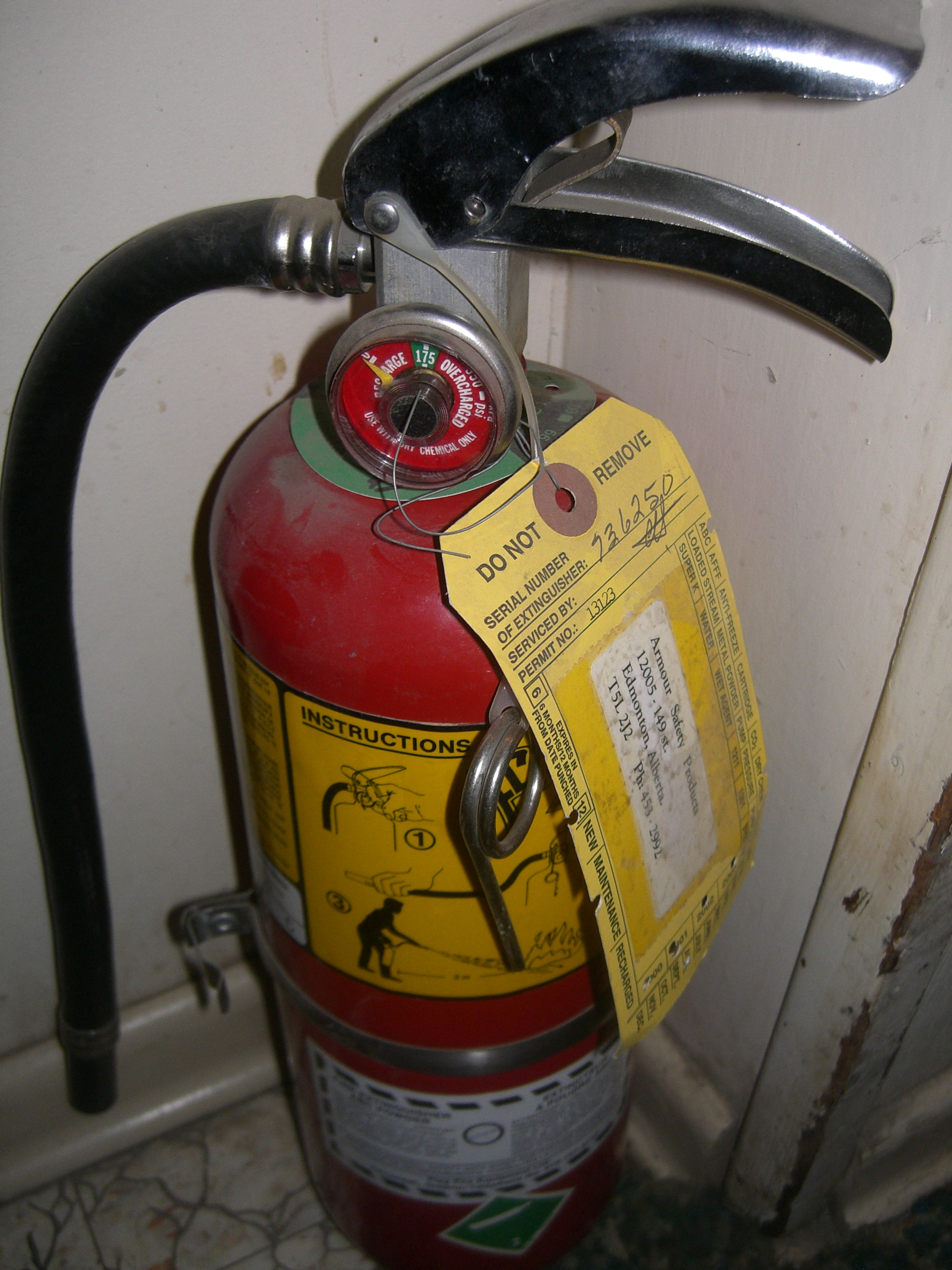 Photo by Myke Waddy,August 21st 2006, empty fire extinguisher a safety hazard